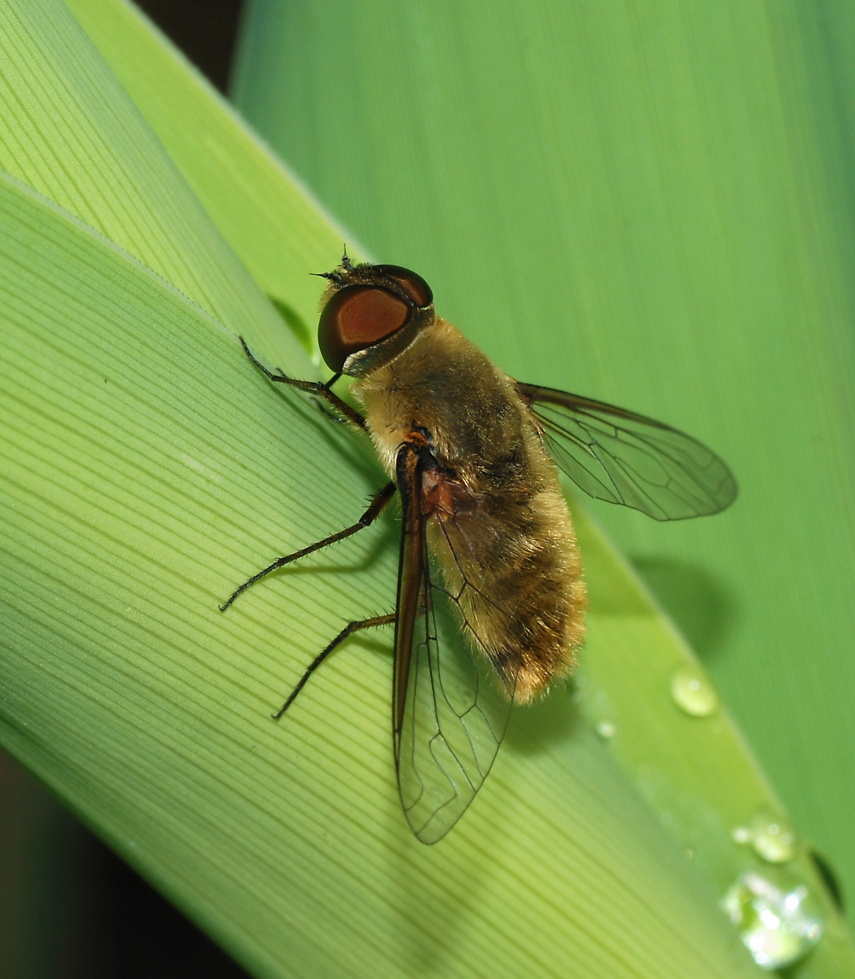 A bee-fly of the Bombyliidae family (Villa sp.)